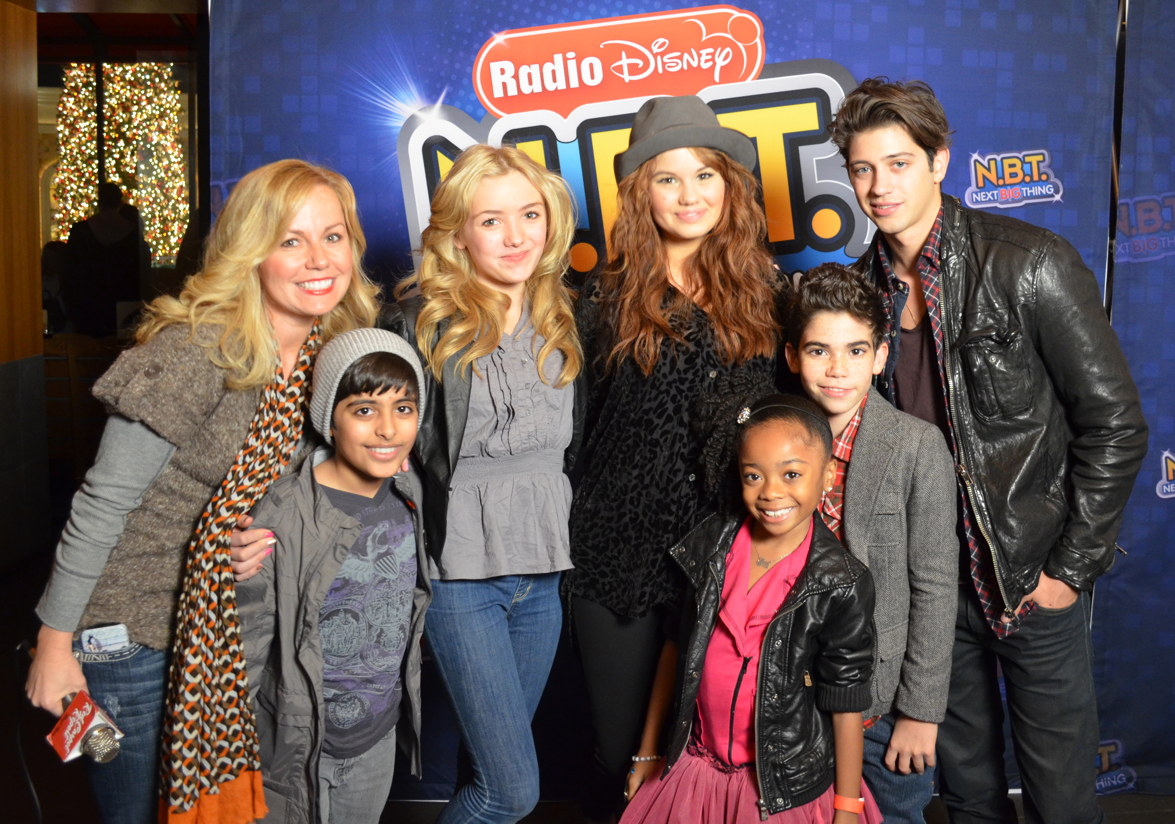 Jessie Cast (Debby Ryan, Peyton List, Cameron Boyce, Karan Brar, Skai Jackson) at the Radio Disney's Season 4 "N.B.T." Winner Finale Concert 2011.